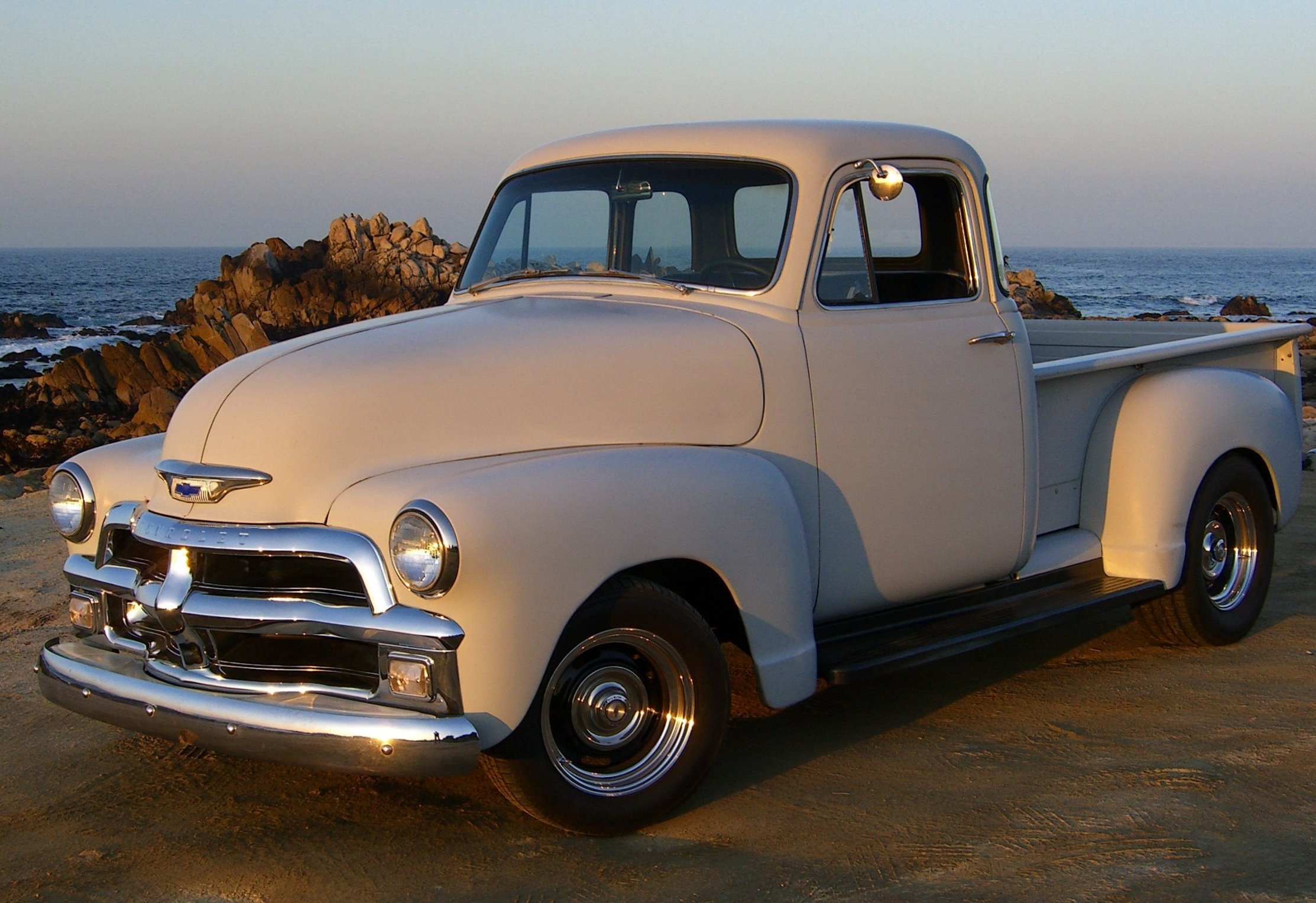 1954 Chevrolet 3100 deluxe-cab ½-ton pickup in primer. Lowered. Non-stock 15 in. Rallye wheels.